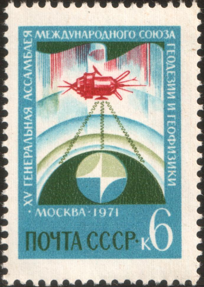 USSR stampː Satellite over Globe. Seriesː 15th General Assembly of the International Union of Geodesy and Geophysics in Moscow (1971.07.30-1971.08.15)